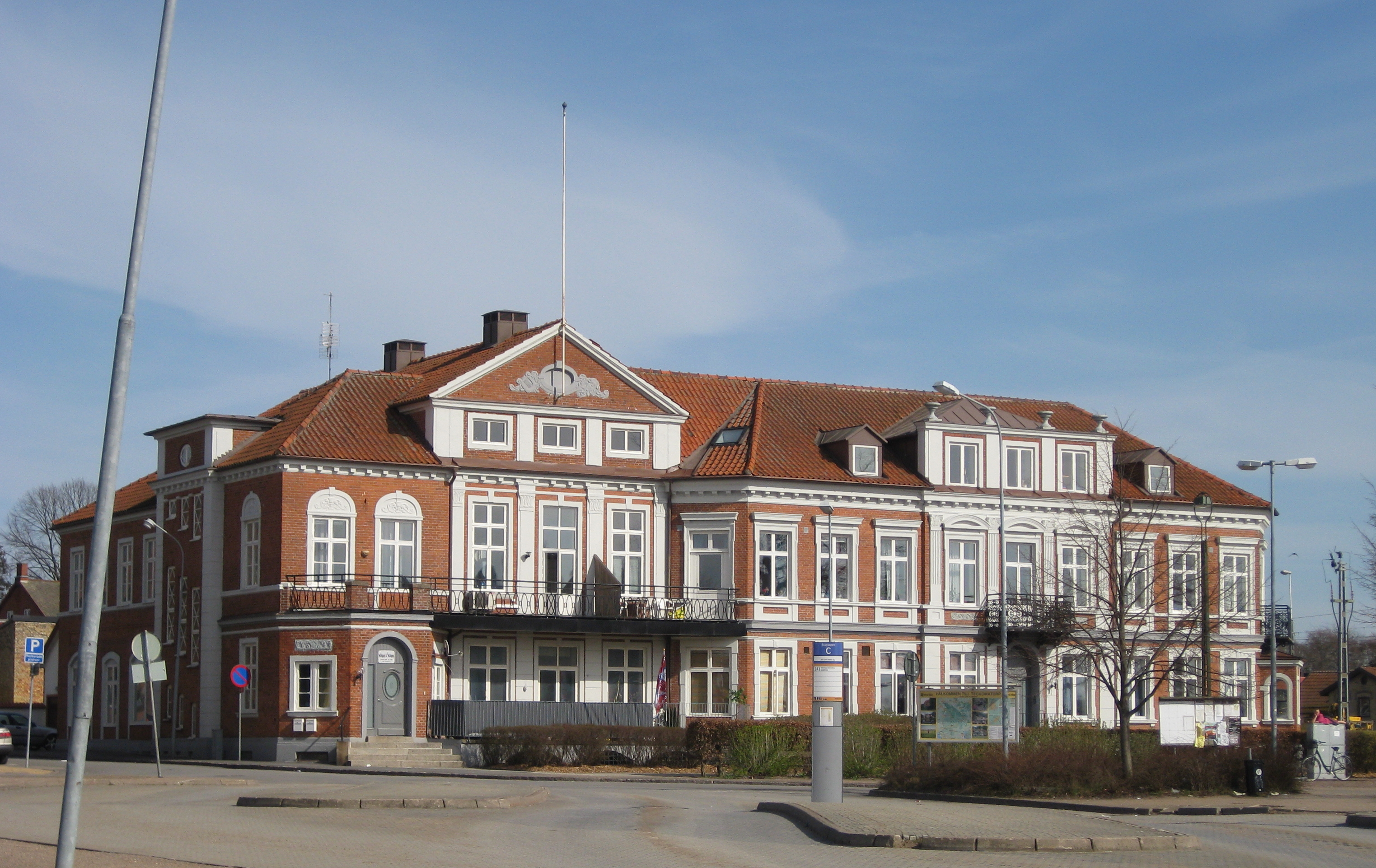 The former railroad hotel in Teckomatorp, Skåne, Sweden